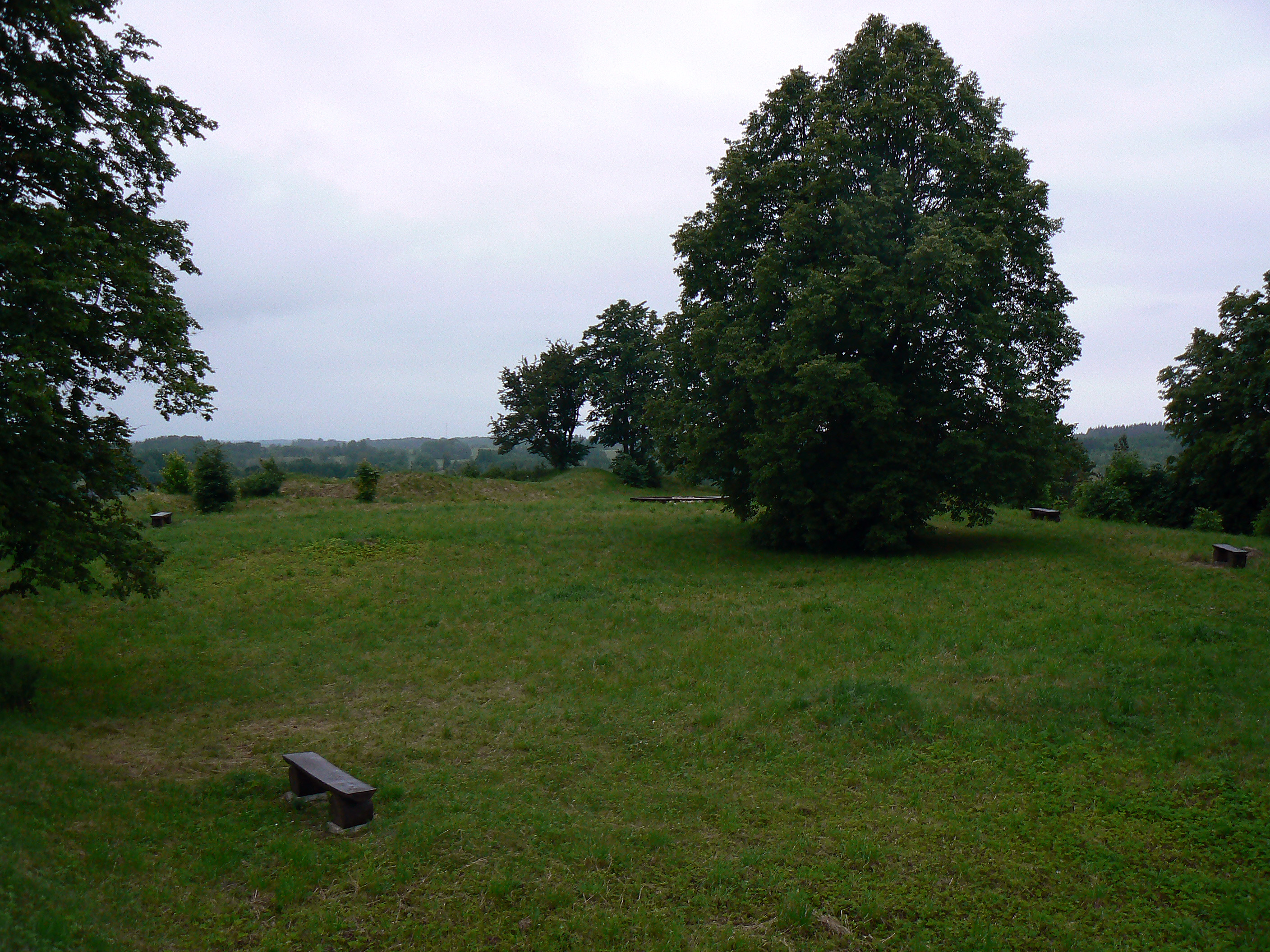 Rudamina Hill Fort near Rudamina town in Lazdijai district, Lithuania.